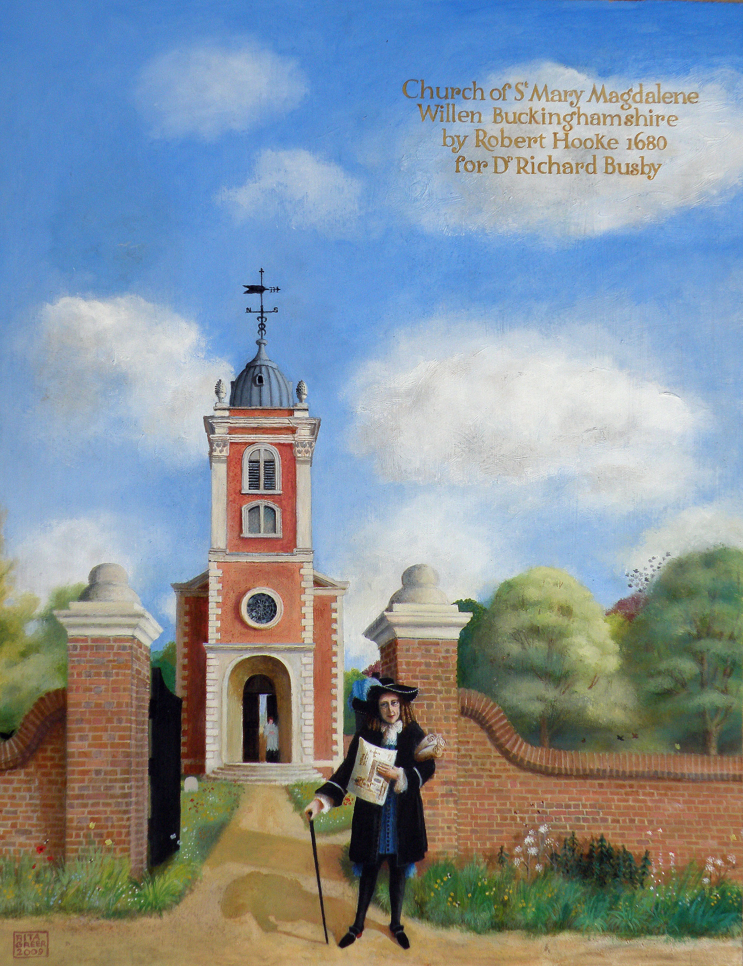 Robert Hooke designed this English parish church for his former headmaster, Dr. Richard Busby, in 1678. It is now Hooke’s only surviving church, built on Busby's estate in Buckinghamshire. The lead cupola and weather vane were removed in the Victorian era and Dr. Busby had a vestry built each side of the tower with more pineapples. Apart from these changes it is much the same as it was when built. The painting in oils shows the church when newly built without the vestries but with the cupola and weather vane. Robert Hooke poses as the architect, a gentleman from London in the latest fashion. In 2009 Willen church is open and manned every day, combining with other parishes in the area to form a Local Ecumenical Partnership serving a large area of Milton Keynes.